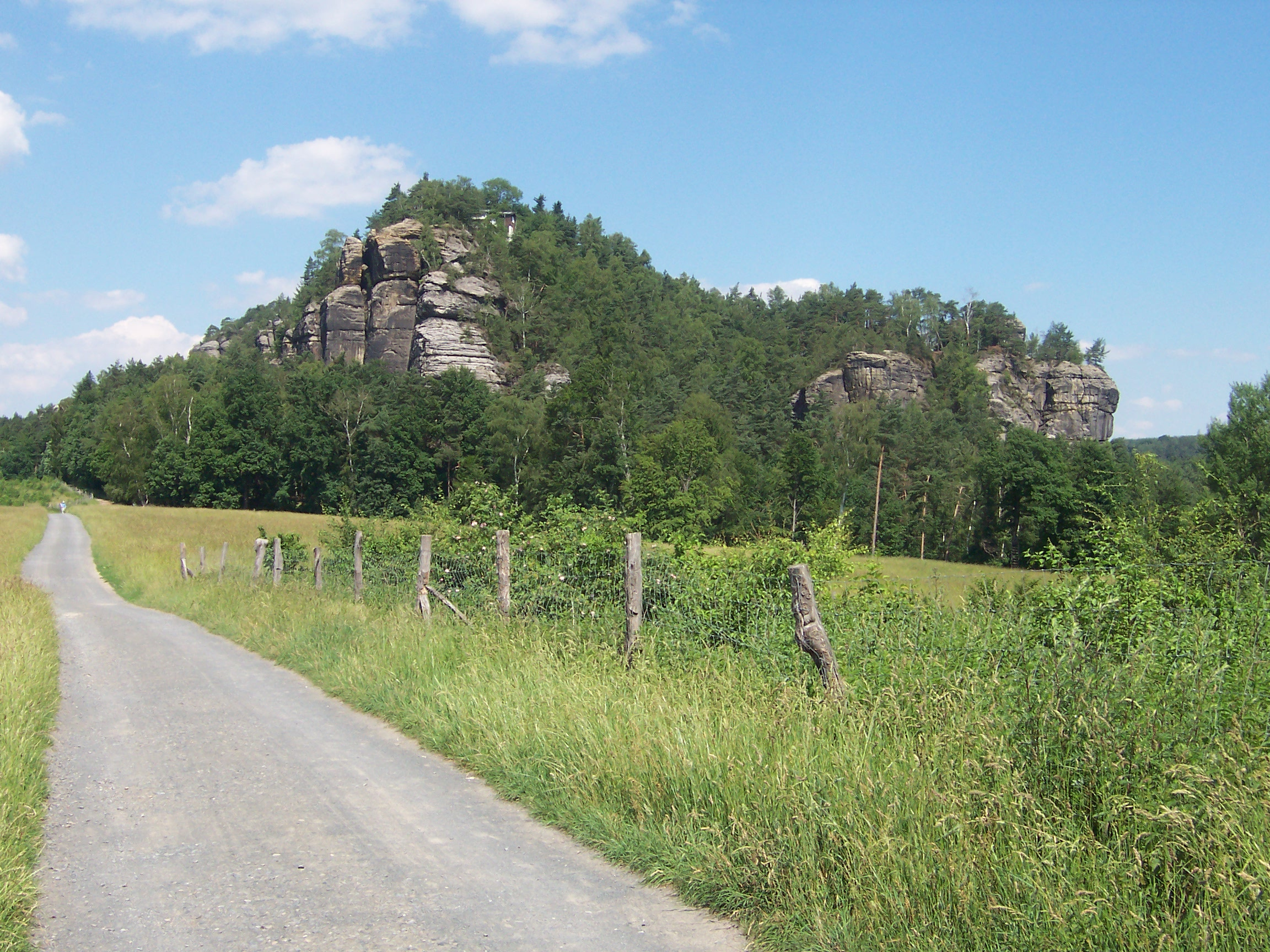 The Rock Rauenstein in Saxon Switzerland.